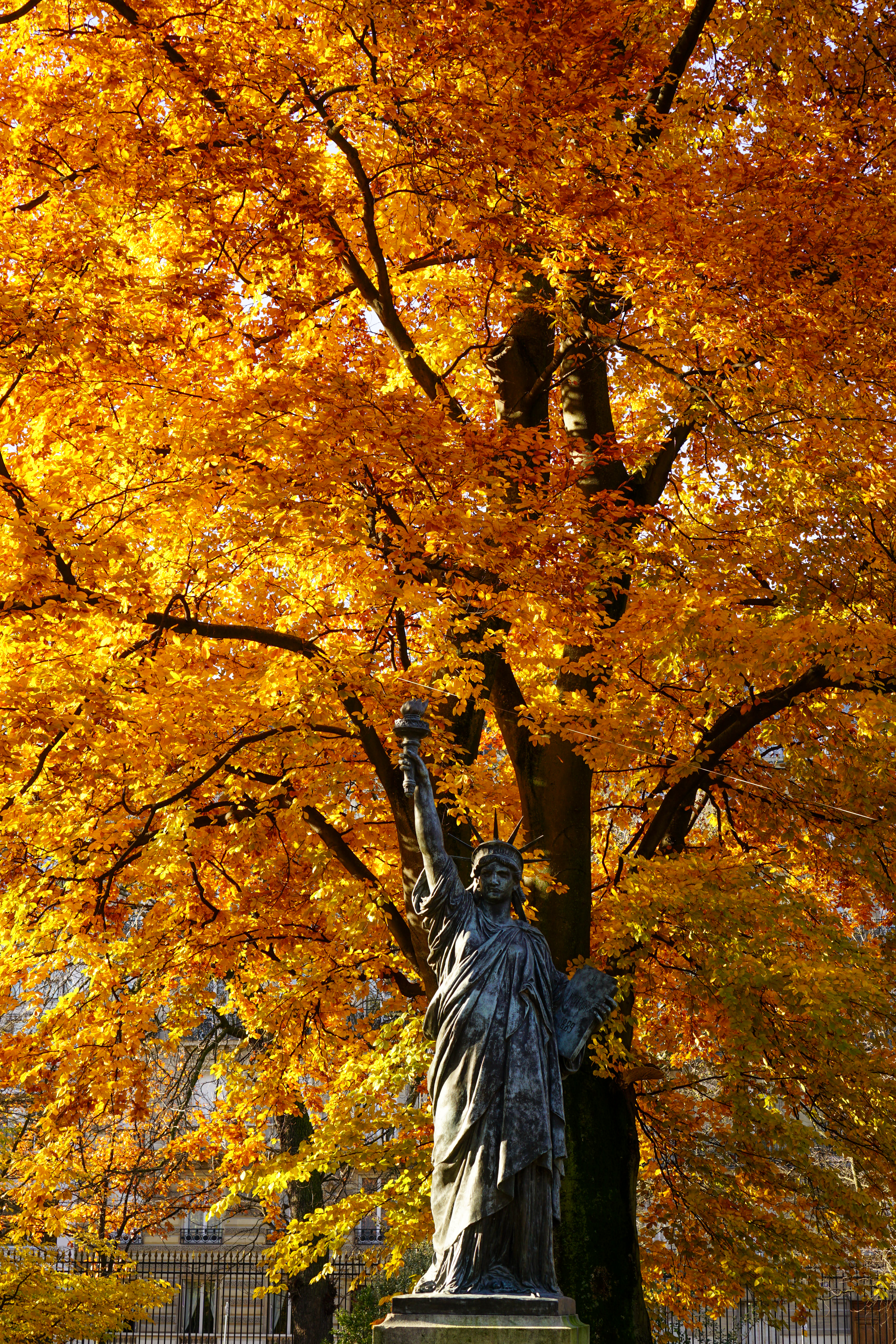 Liberty Enlightening the World in Jardin du Luxembourg with Fall tree